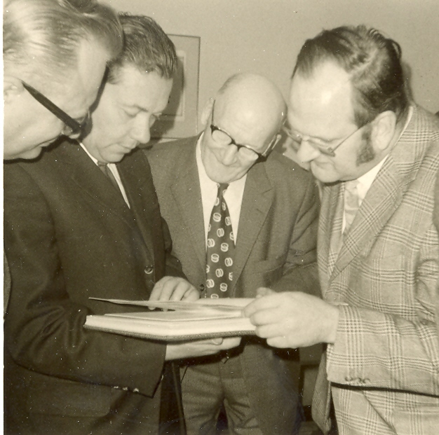 Joachim Reiners, Eduard Kreuz, Hans Kluever, Bernhard Schauer chess composers